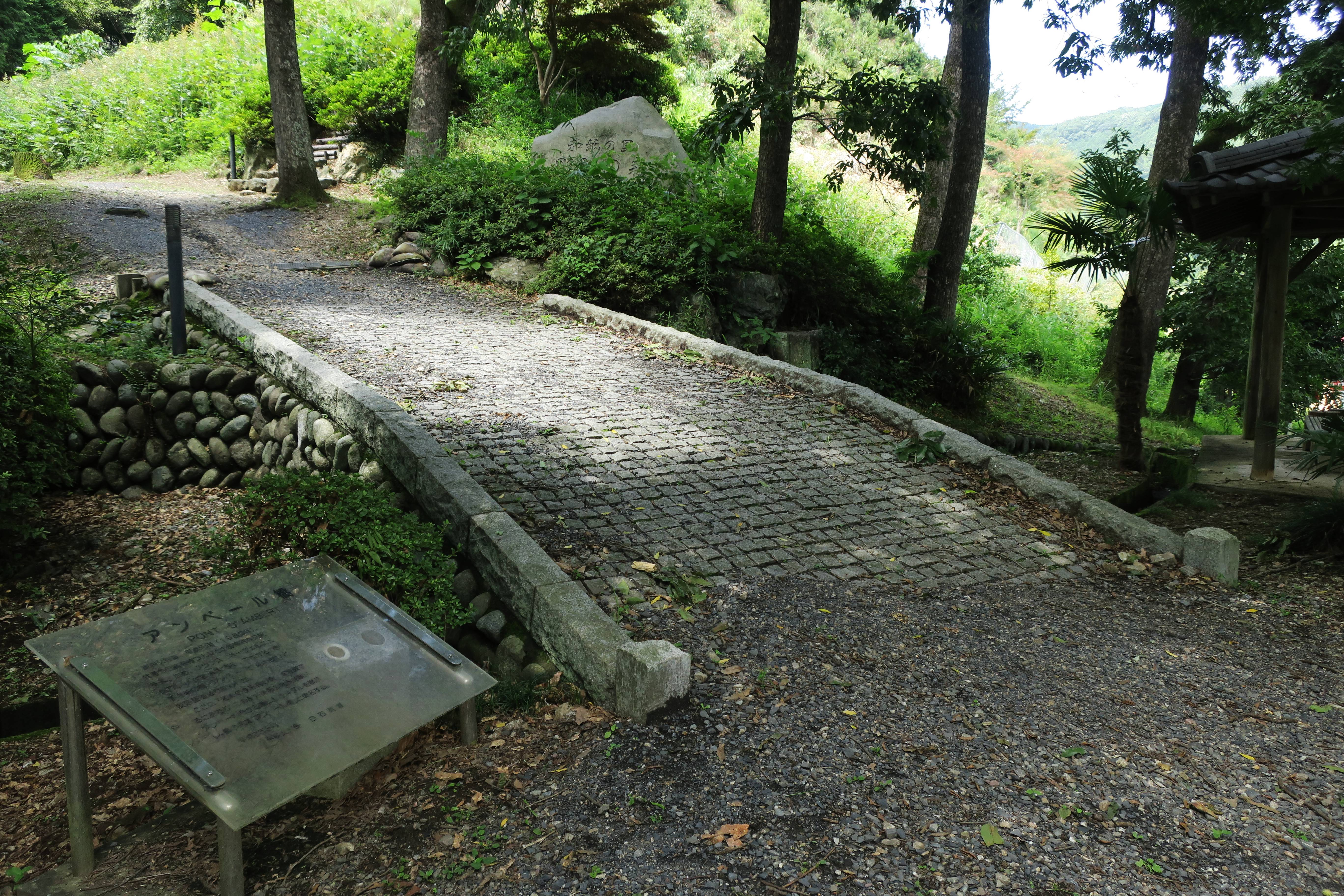 Michinoeki Washinosato Higashichichibu (Higashichichibu, Saitama).